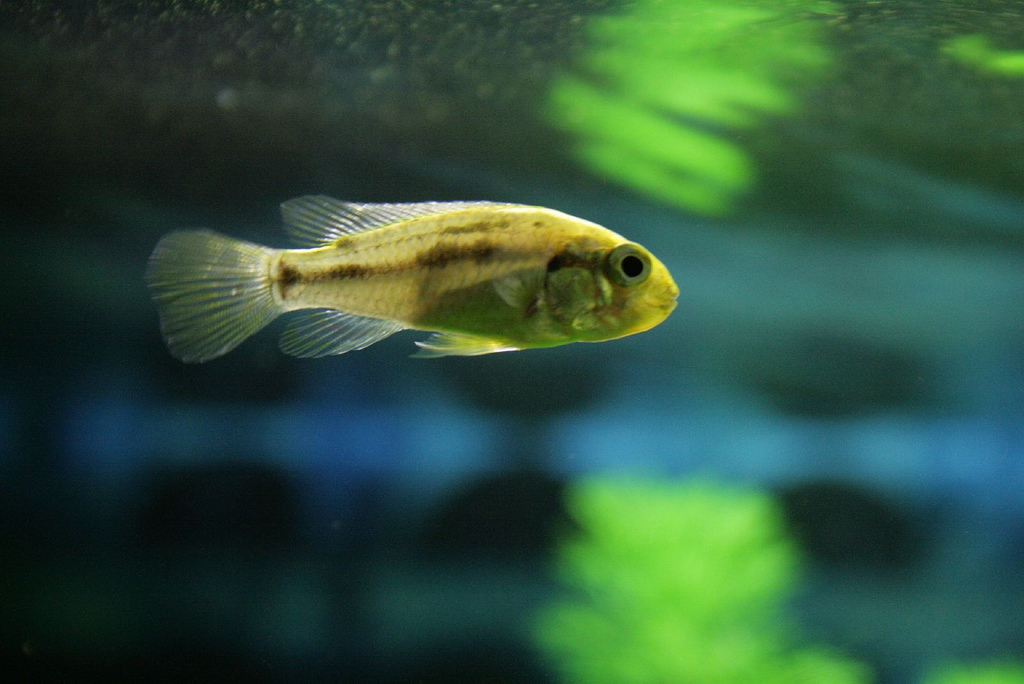 A female Egyptian Mouthbrooder